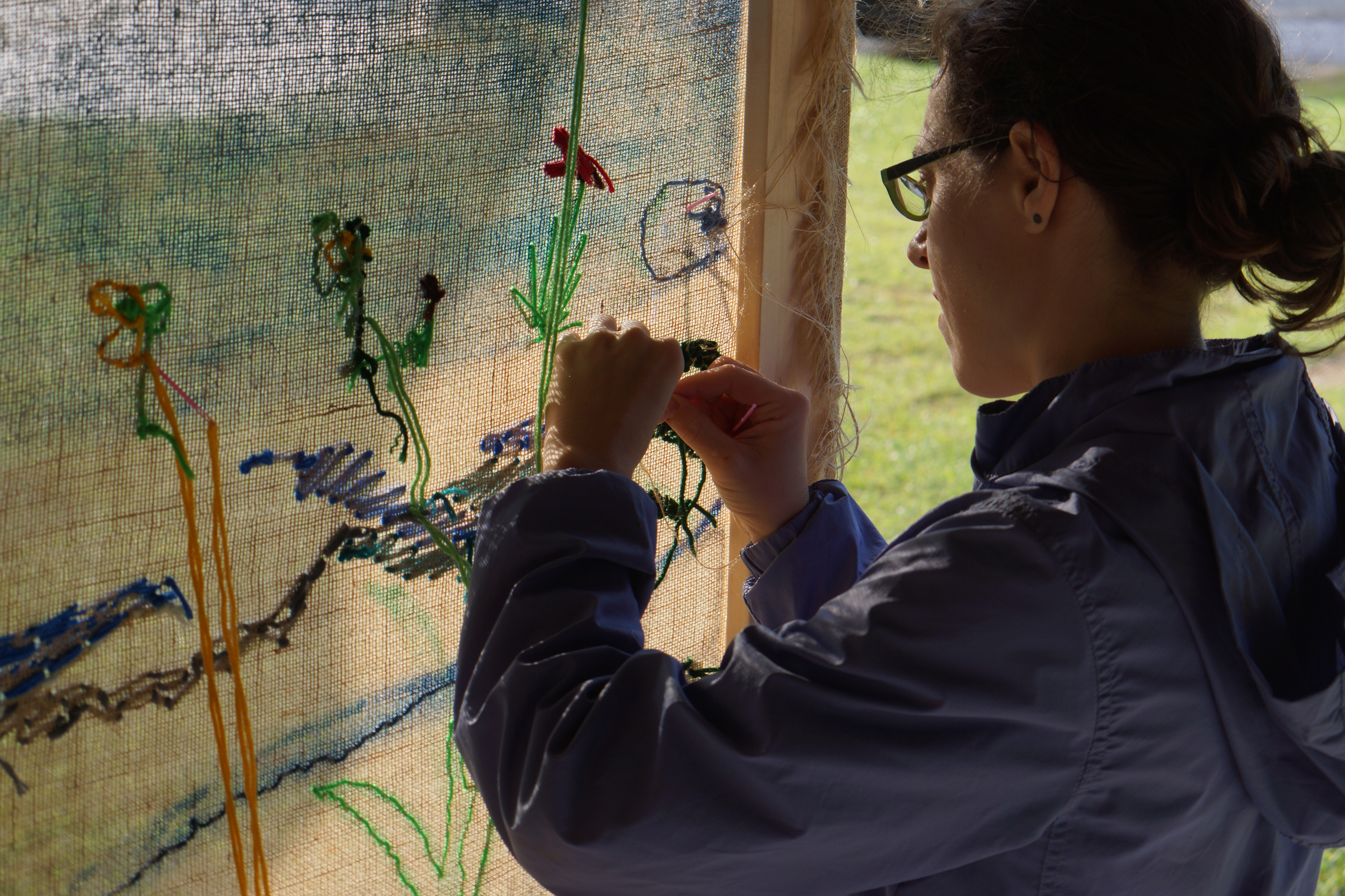 Each year the Toes in the Toe Watershed Discovery event brings 5th-grade students from North Carolina’s Yancey and Mitchell counties out to a river in their community. On the banks of the river they rotate through a variety of educational stations focused on stream health and the importance of river. Stations include art, farming, energy, fish, and stream macroinvertebrates. Because the watershed is home to the endangered Appalachian elktoe mussel, the Fish & Wildlife Service helped create the event and continues to help students explore the North and South Toe rivers in search of stream insects, mollusks, and other animals. Photo credit: Gary Peeples/USFWS